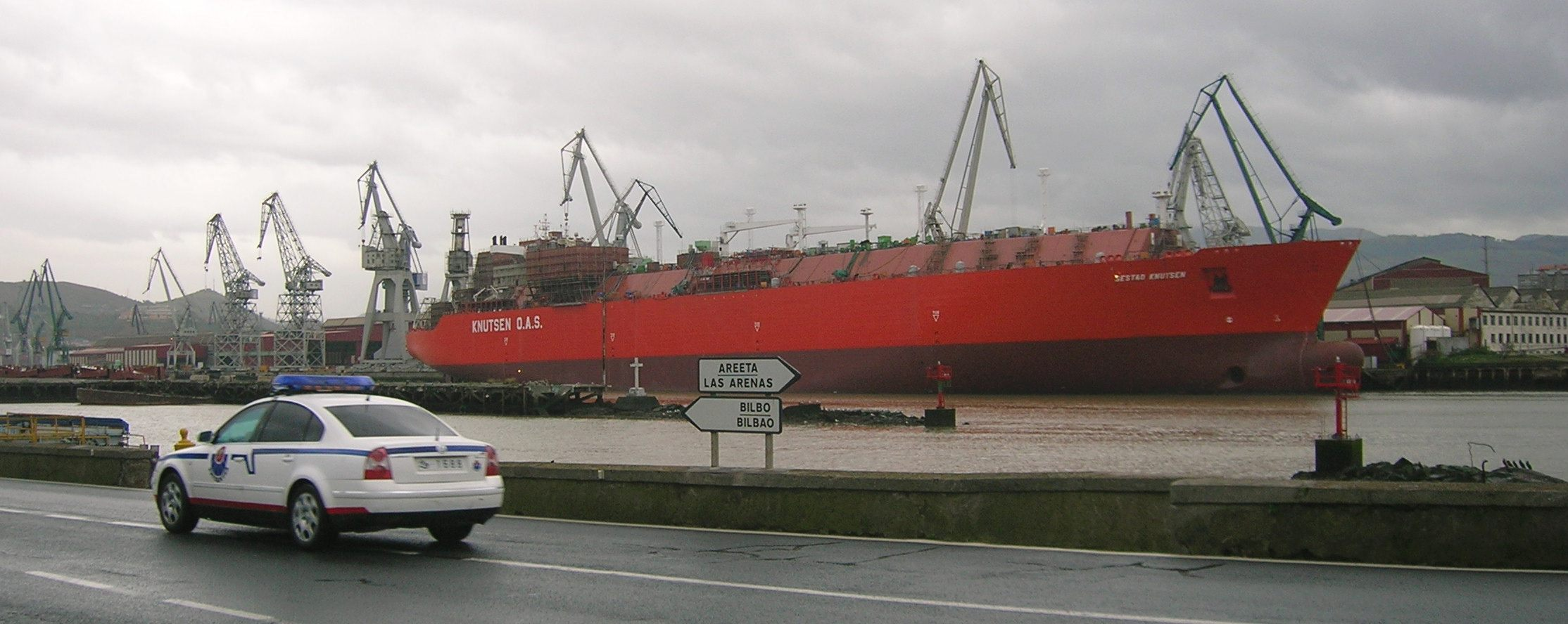 Image taken from the bridge over the mouth of rivers Udondo and Gobelas in Leioa near Erandio. On the BI-711 road, a vehicle of the (police of the Basque Autonomous Community). Beyond the Nervión-Ibaizabal ria, the Sestao Knutsen gas vessel is being built at Izar shipbuliding premises, in Sestao.